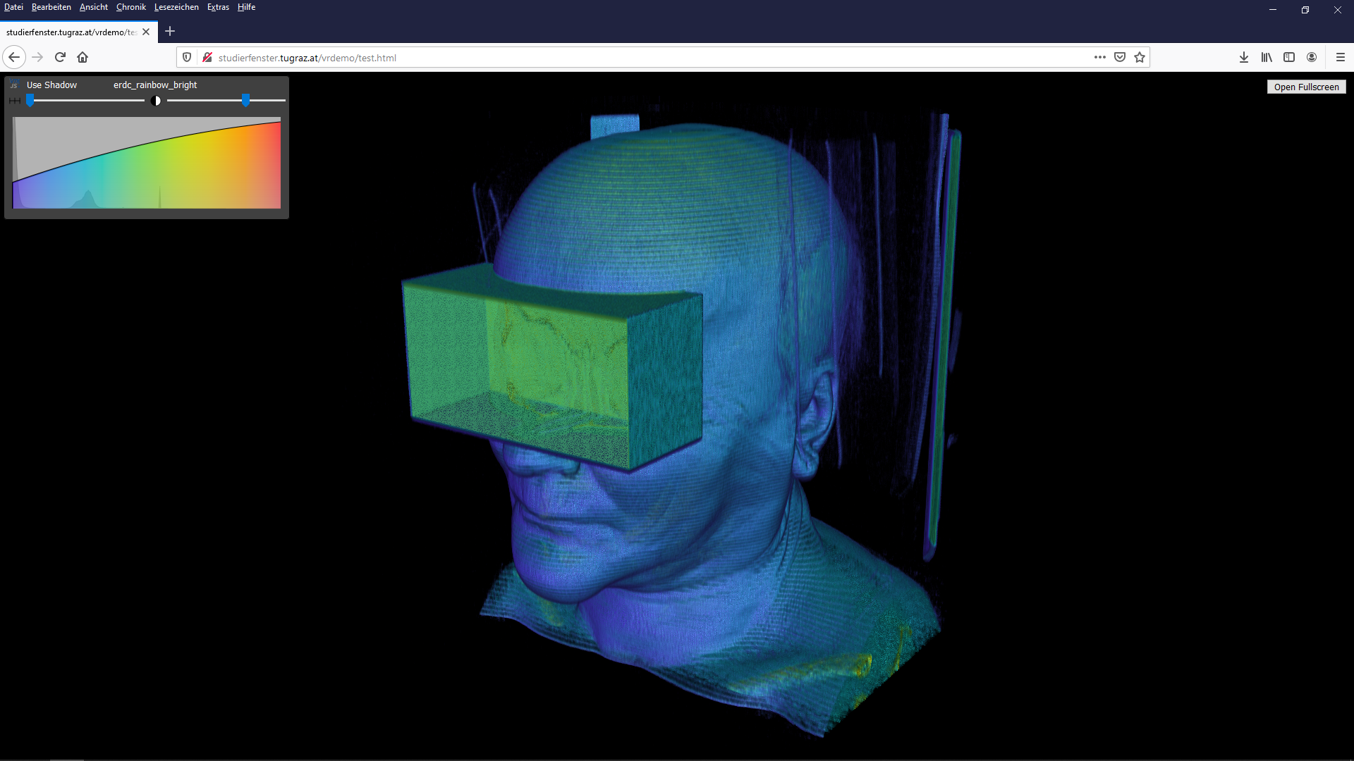 Studierfenster is an Open Science client/server-based Medical Imaging Processing (MIP) online framework. The screenshot shows how a Computed Tomography (CT) scan of a patient can be viewed in Virtual Reality (VR) with Studierfenster.